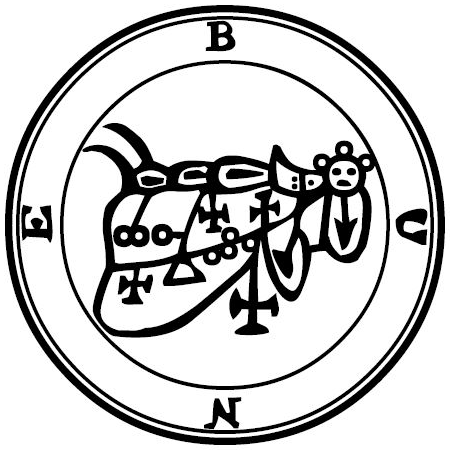 Bune seal, THE BOOK OF THE GOETIA OF SOLOMON THE KING (1904)